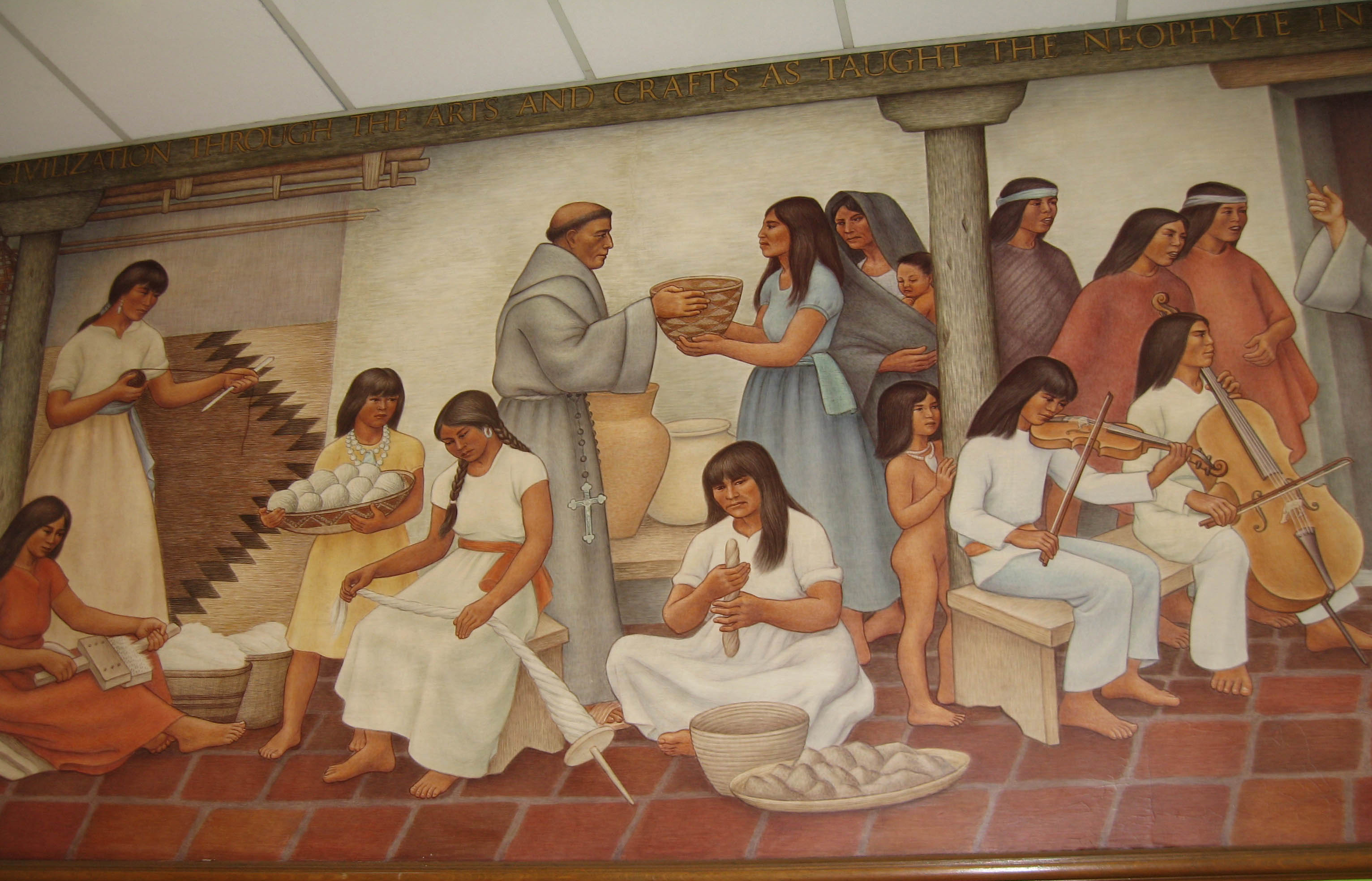 by Edith Hamlin for the Works Project Administration at Mission High School, San Francisco Mission High School (San Francisco) - guess 1937